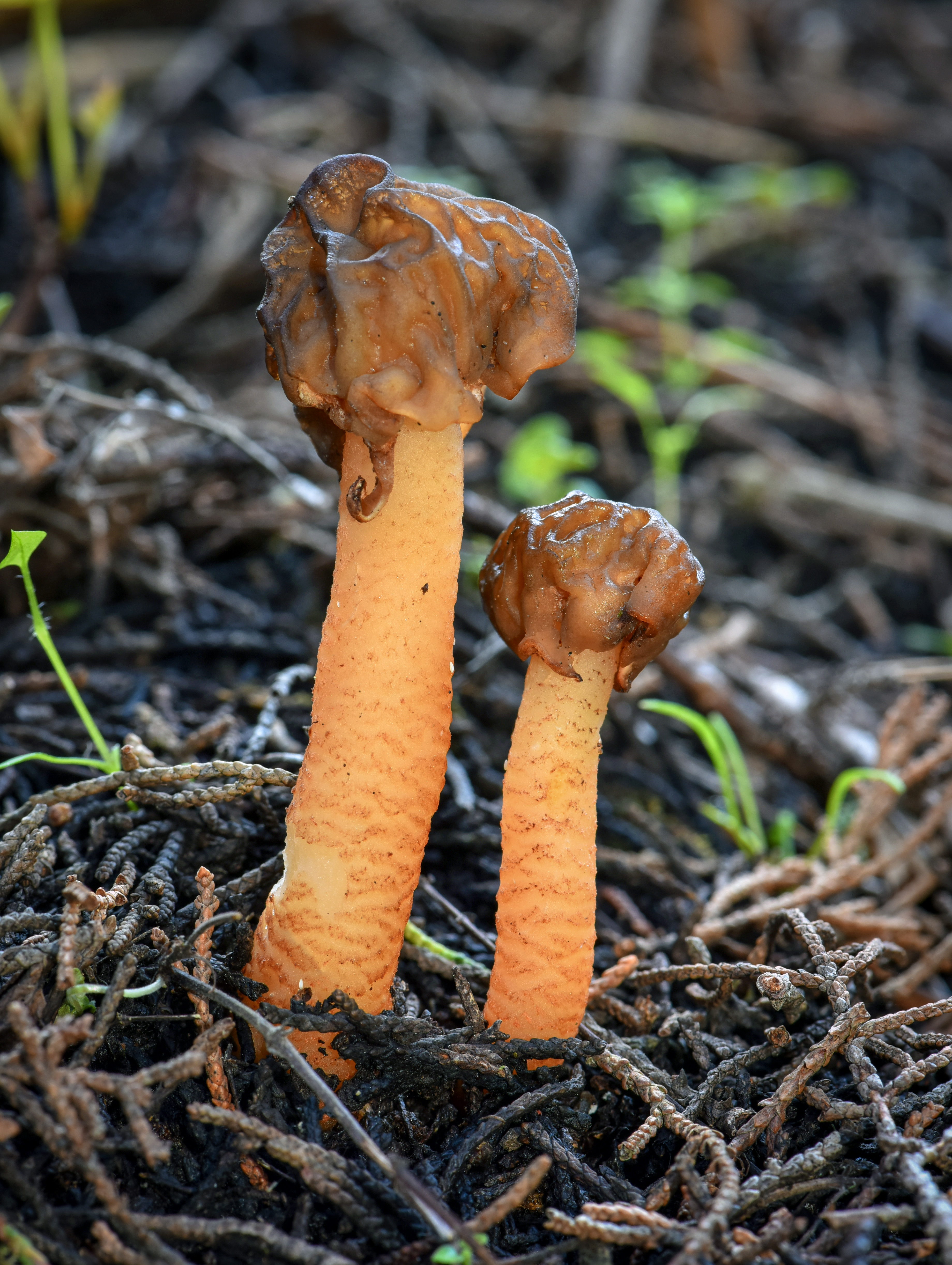 Verpa species from San Mateo, California, USA. Growing in the duff of Monterey cypress.